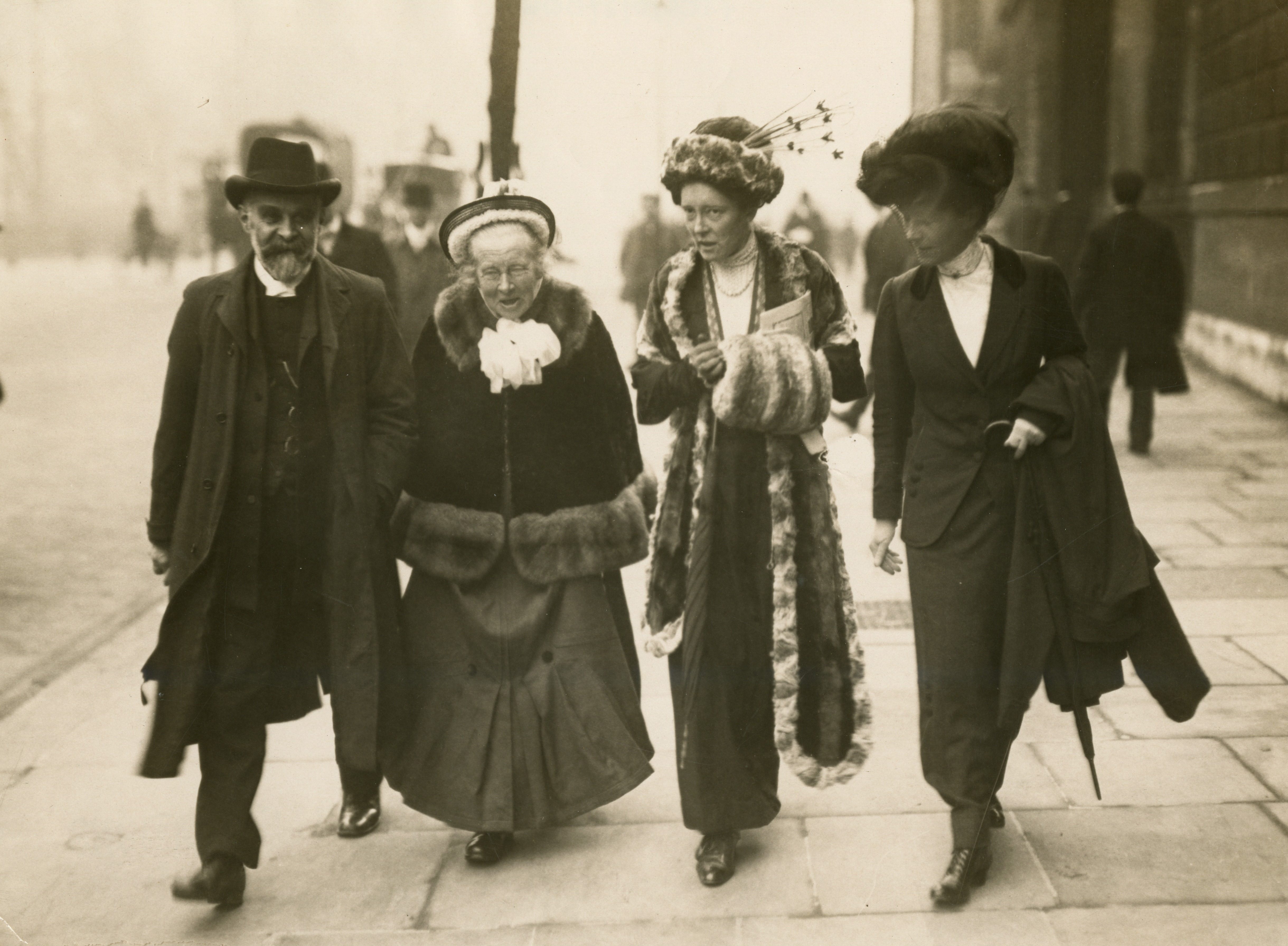 7JCC/O/02/006a Photograph, printed, paper, monochrome, Dr Elizabeth Garrett Anderson walking in the street with a man and two women, one of them is her daughter Dr Louisa Garrett Anderson; printed caption on reverse 'WAIT AND SEE. The proverbial patience of women has been rewarded and the Premier's famous invention 'wait and see' has been proved by his consenting to receive them as a deputation this morning on Women's Suffrage. OUR PICTURE SHOWS'; manuscript inscription 'Professor Caldecott, Dr Garrett Anderson & Miss Anderson', printed 'Copyright Newspaper Illustrations Limited 161a Strand'